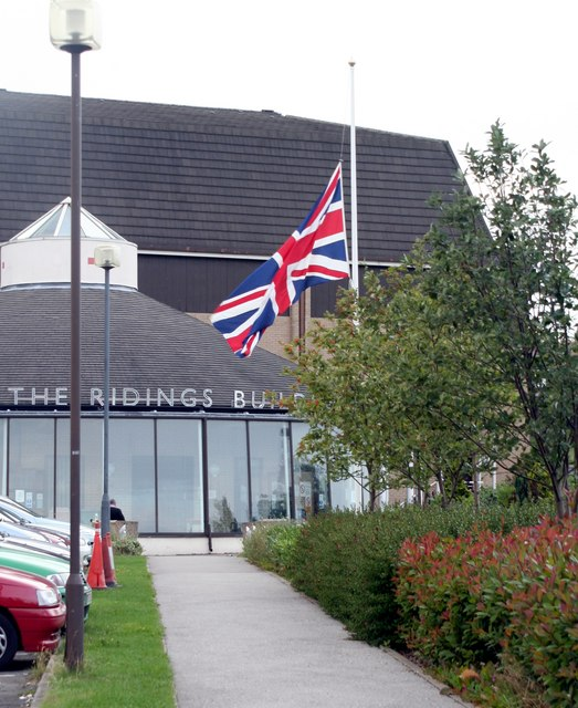 Dewsbury & District Hospital, Main entrance Main entrance to the Ridings Building, Dewsbury & District Hospital